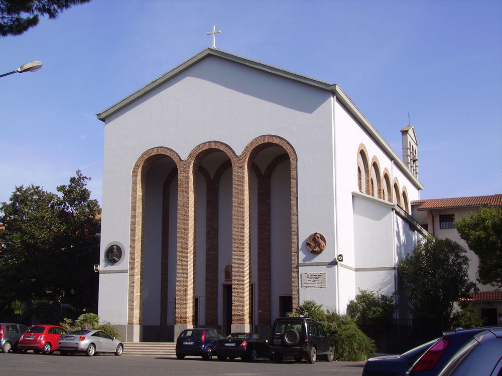 Church of San Nicola in Mazzano Romano (Province of Rome).